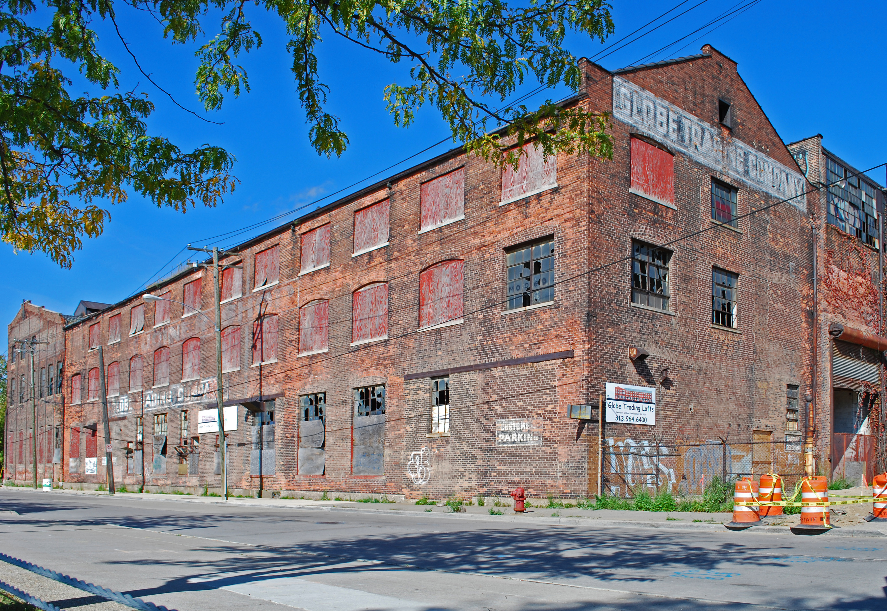 Industrial Loft Building at Detroit Dry Dock Engine Works